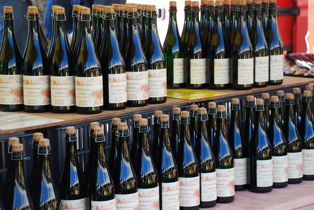 Caernarfon Marché Français - Marchnad Ffrengig - French Market. A stall selling Normandy Cider at 615707